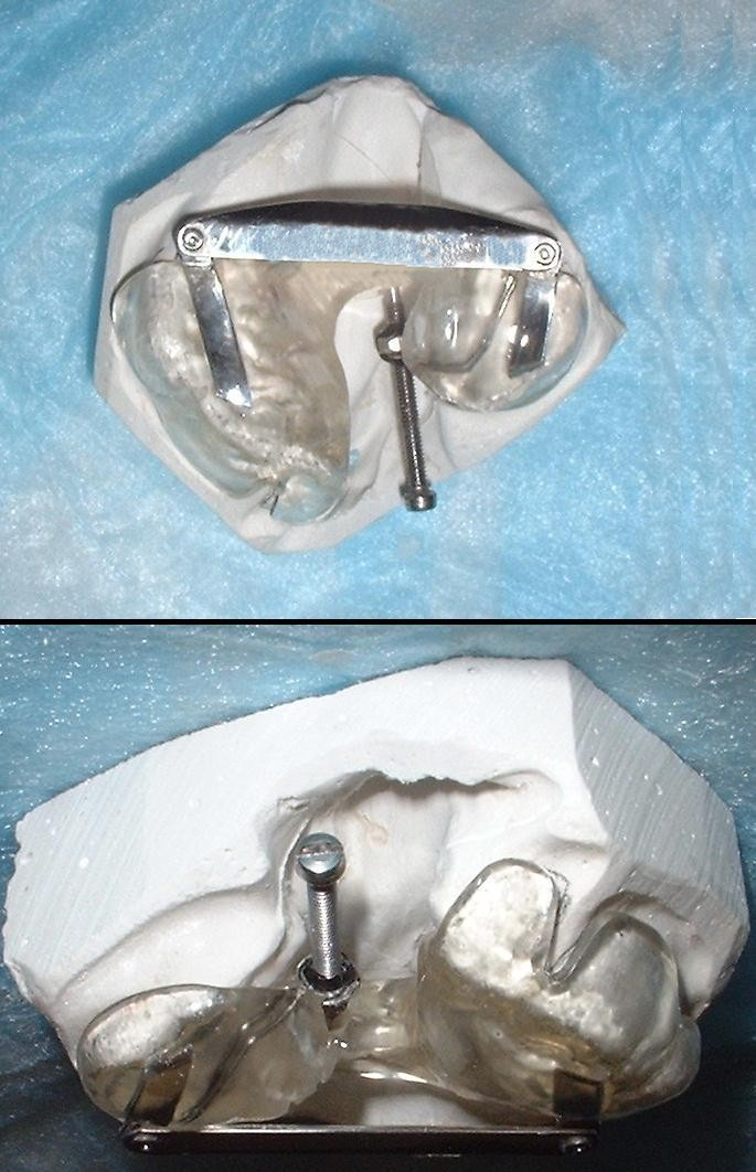 Cleft palate prostheses